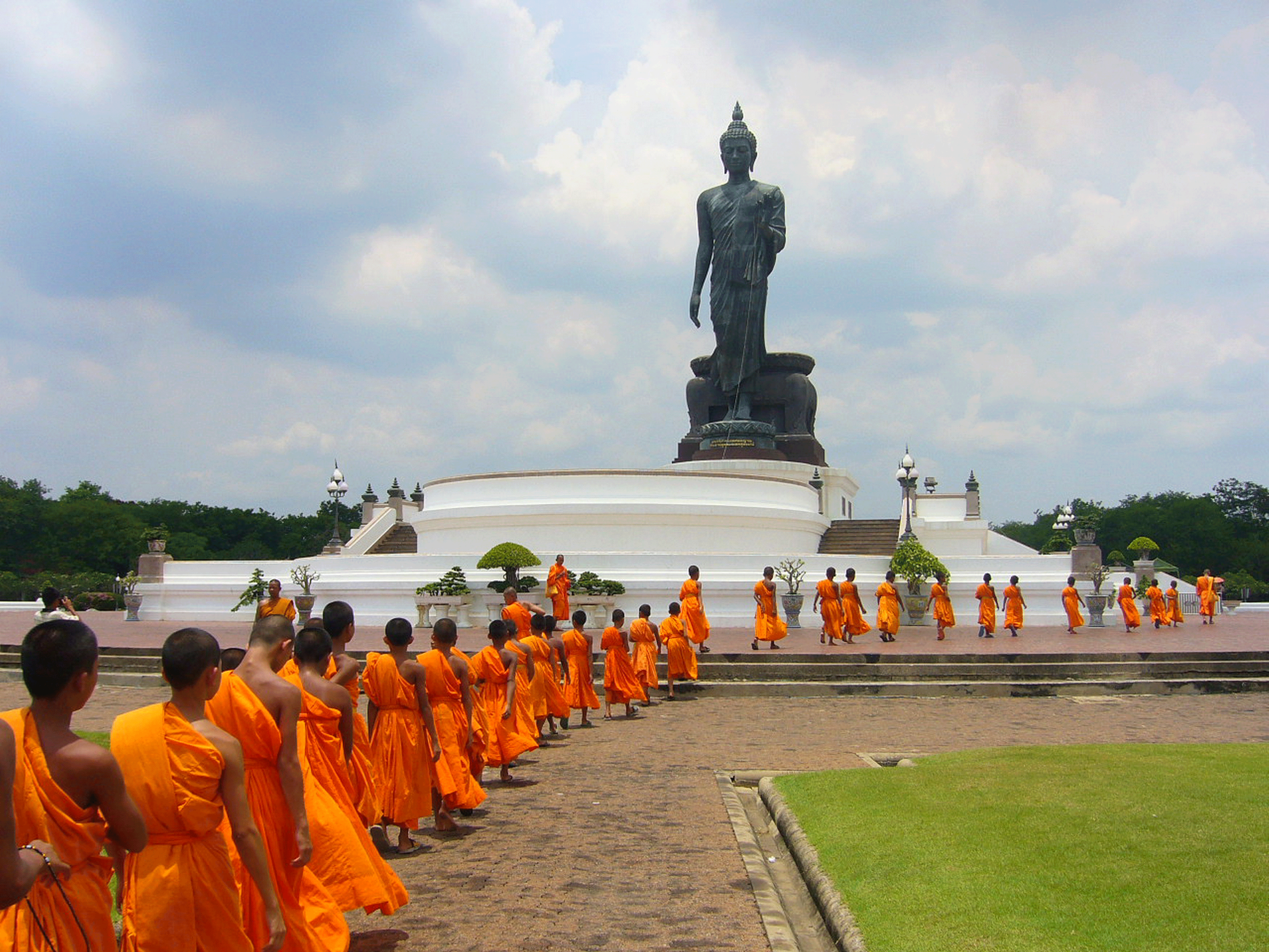 Buddhamondon Location: Nakonphatom, Thailand.